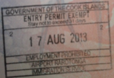 Cook Islands Passport Entry Stamp Other information Cook Islands Entry